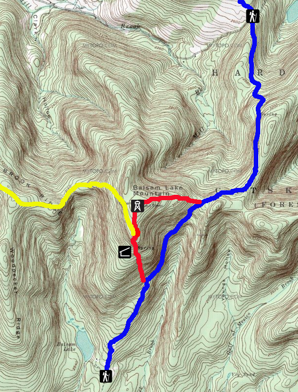 USGS map of Balsam Lake Mountain, Hardenburgh, NY, USA